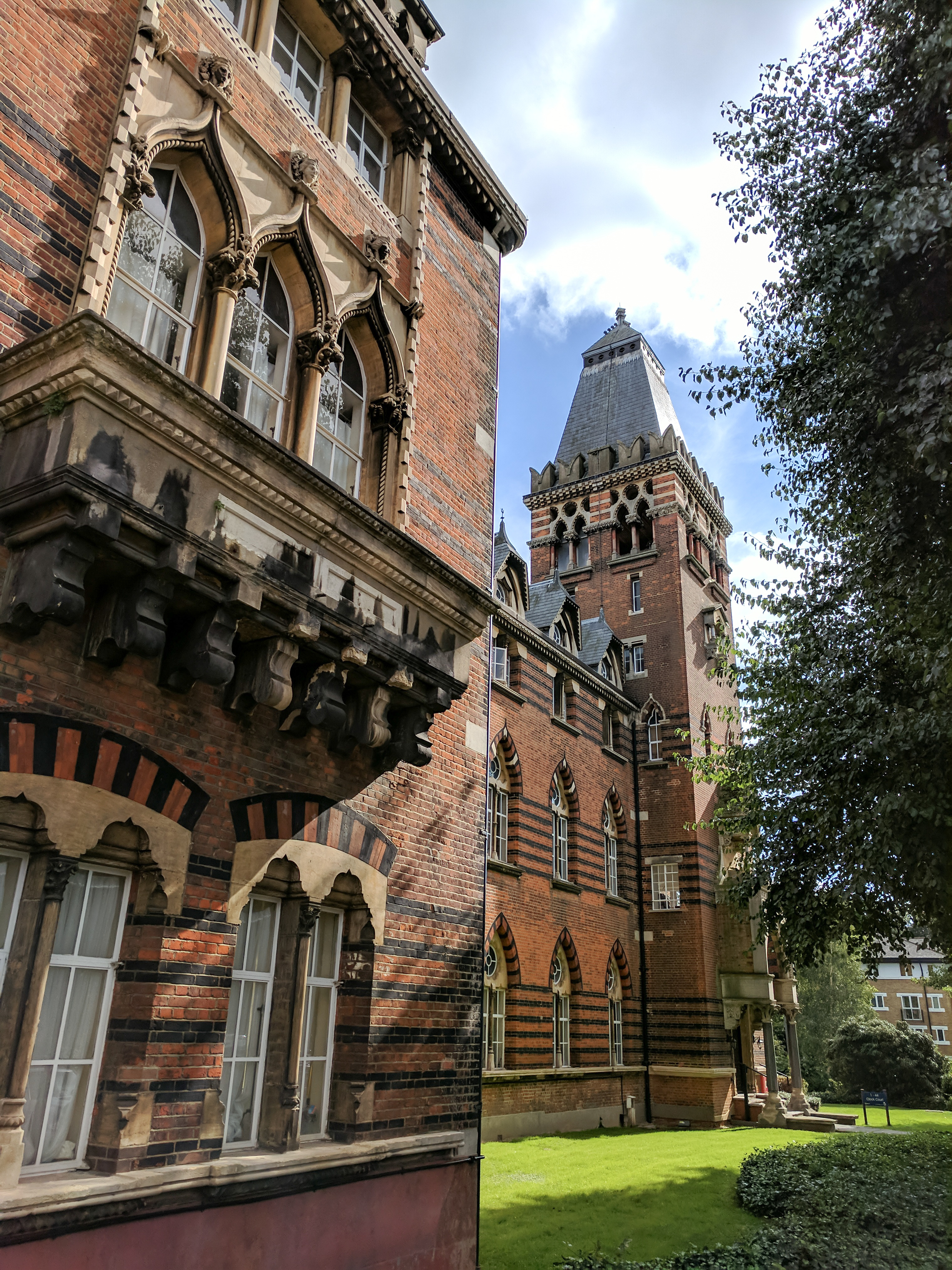 Former Merchant Seamen's Orphan Asylum At Wanstead Hospital. Wikidata has entry Q17553287 with data related to this item.